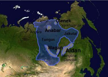 Location of the Siberian shield (and outcrops of the Siberian craton) on a satellite image of Asia. (in Norwegian) Reworked with craton detail of shields and belts (in Italics)